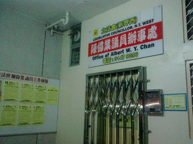 Albert Wai Yip Chan's office in Yau Oi Estate, Tuen Mun, Hong Kong